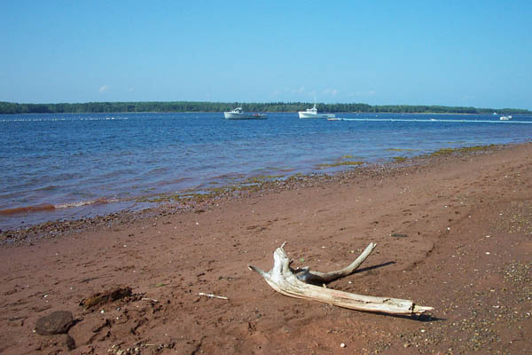 July 29, 2006